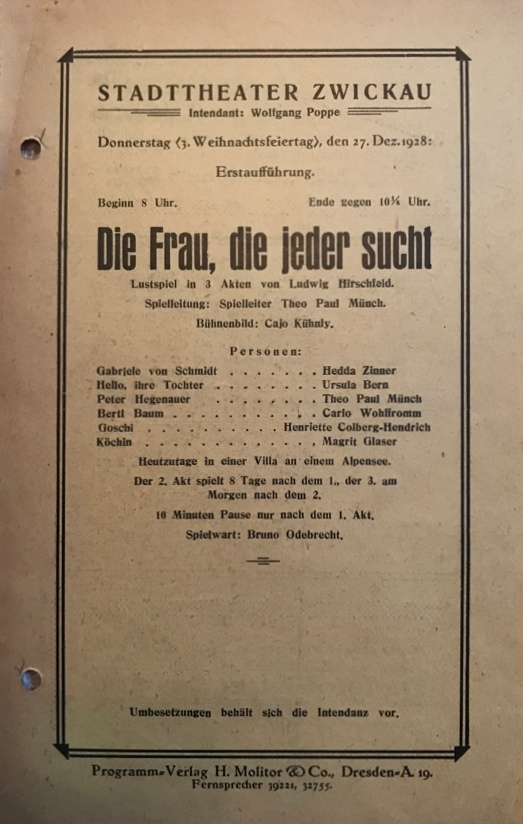 Playbill: L. Hirschfeld, Die Frau, die jeder sucht (1928)